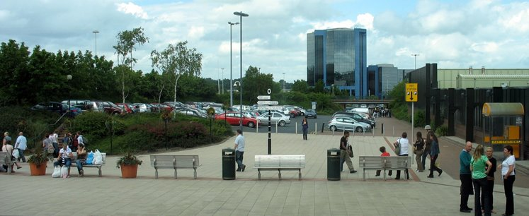 The Telford Town Centre area of Telford, England.